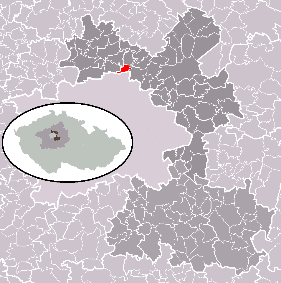 Location of Hovorčovice municipality within Prague-East District and administrative area of Brandýs nad Labem-Stará Boleslav as a Municipality with Extended Competence.